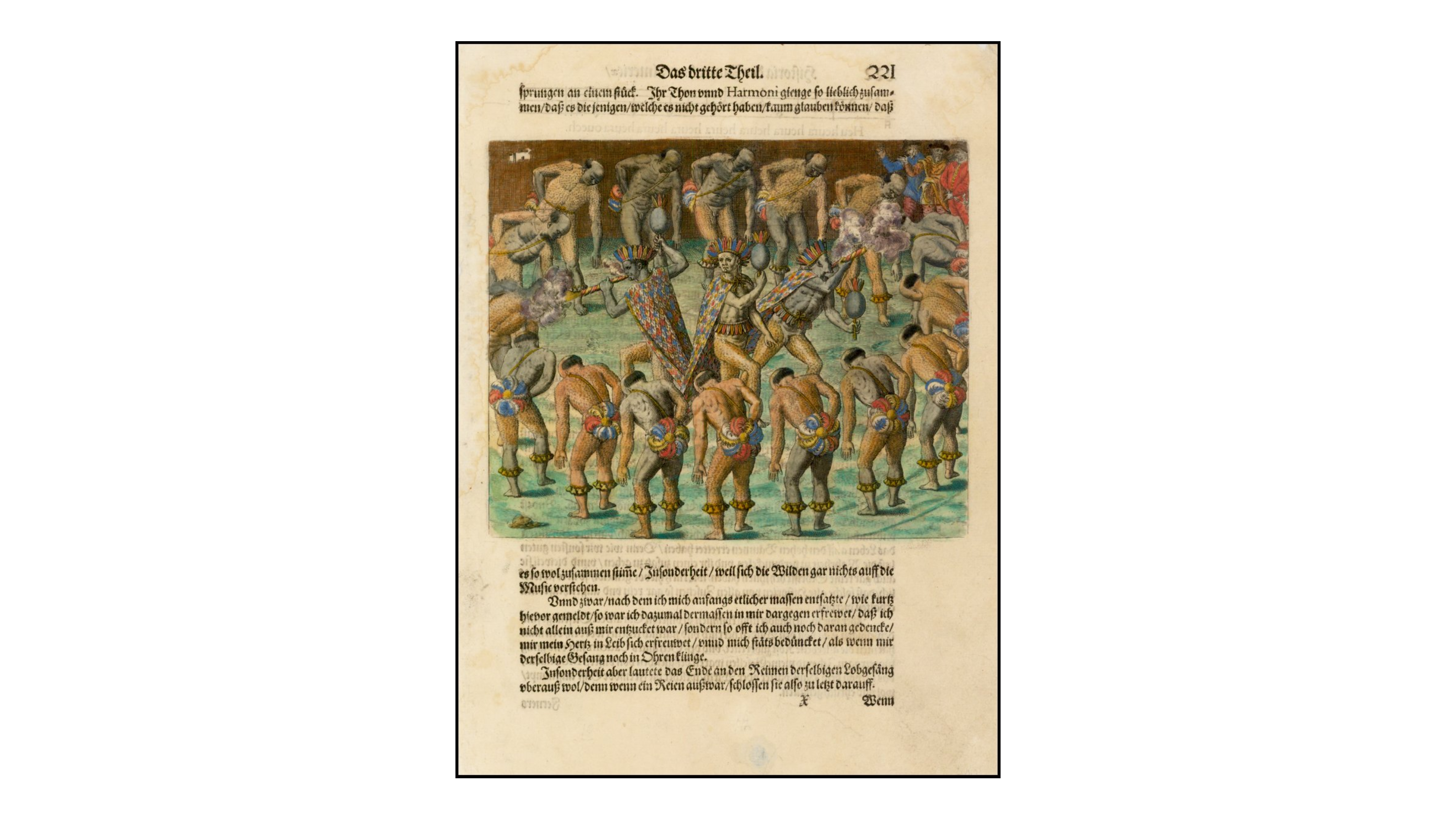 Tupinamba Indians observed by Hans Staden during his voyage to Brazil (1552). From 'Newe Welt und Americanische Historien' by Johann Ludwig Gottfried, published by Mattaeus Merian, Frankfurt, 1631. Hand coloured engraving by Theodore de Bry (1528–98).